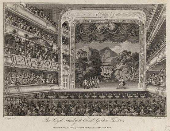 The Royal Family at Covent Garden Theatre, engraving, published in London 11 August 1804 Victoria and Albert Museum, London, Museum number: S.6192-2009